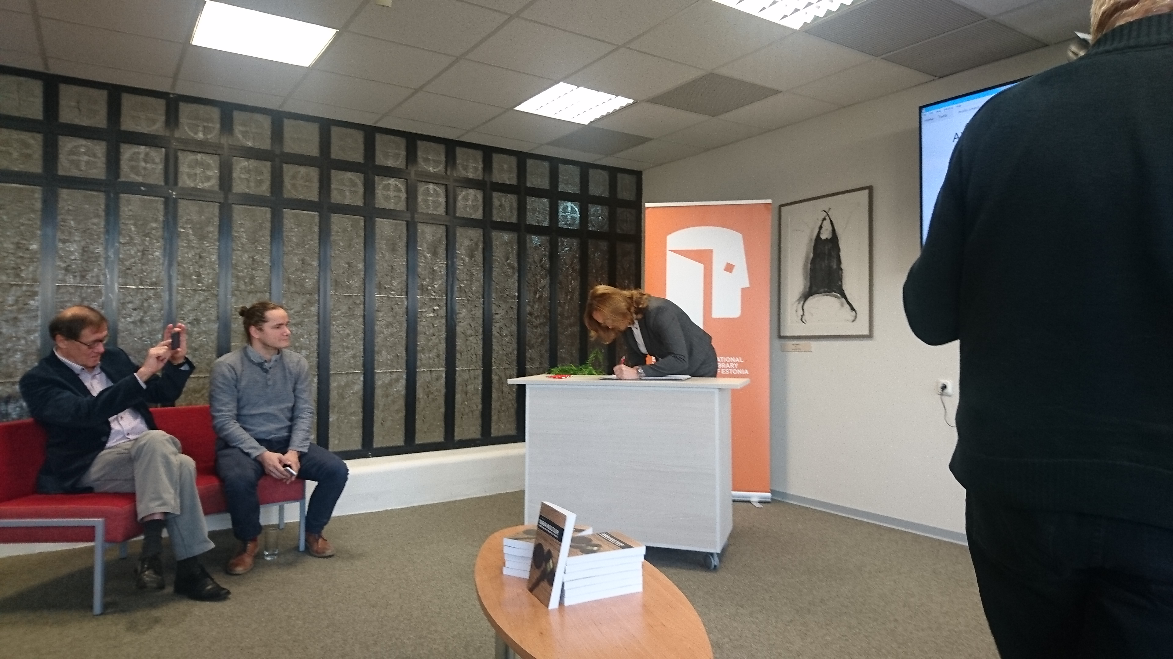 Public Domain Manifesto signing and exhibition in Estonian National Library, Oct 19, 2017. Signing: Janne Andresoo, director of the National Library of Estonia. Photographing: Andres Kollist, the director of the Academical Library of the Tallinn University. Onlooking: Siim Tuisk, moderator of the event.